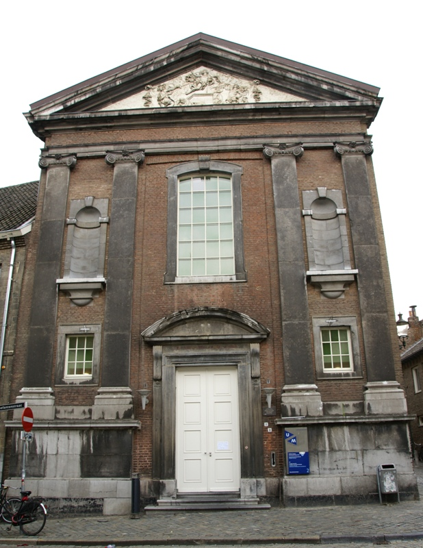 National monument no. 26750 - Bonnefantenstraat 2, Maastricht, The Netherlands